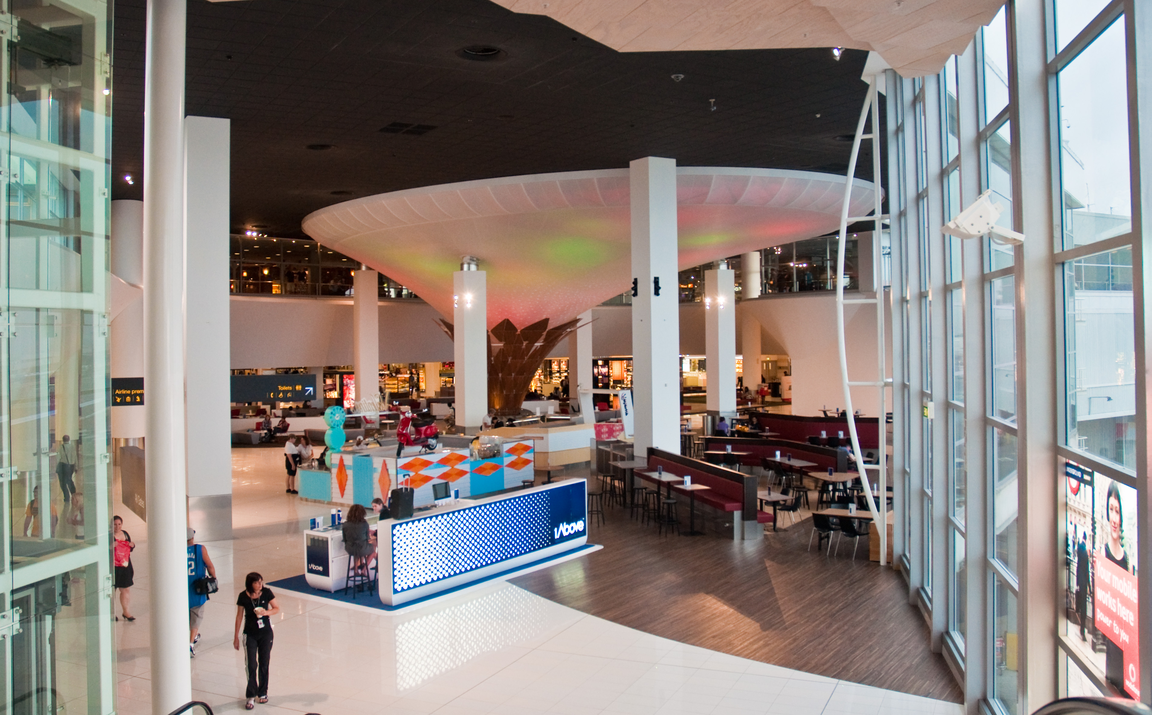 New international departure atrium at Auckland Airport, 27th. Dec. 2010